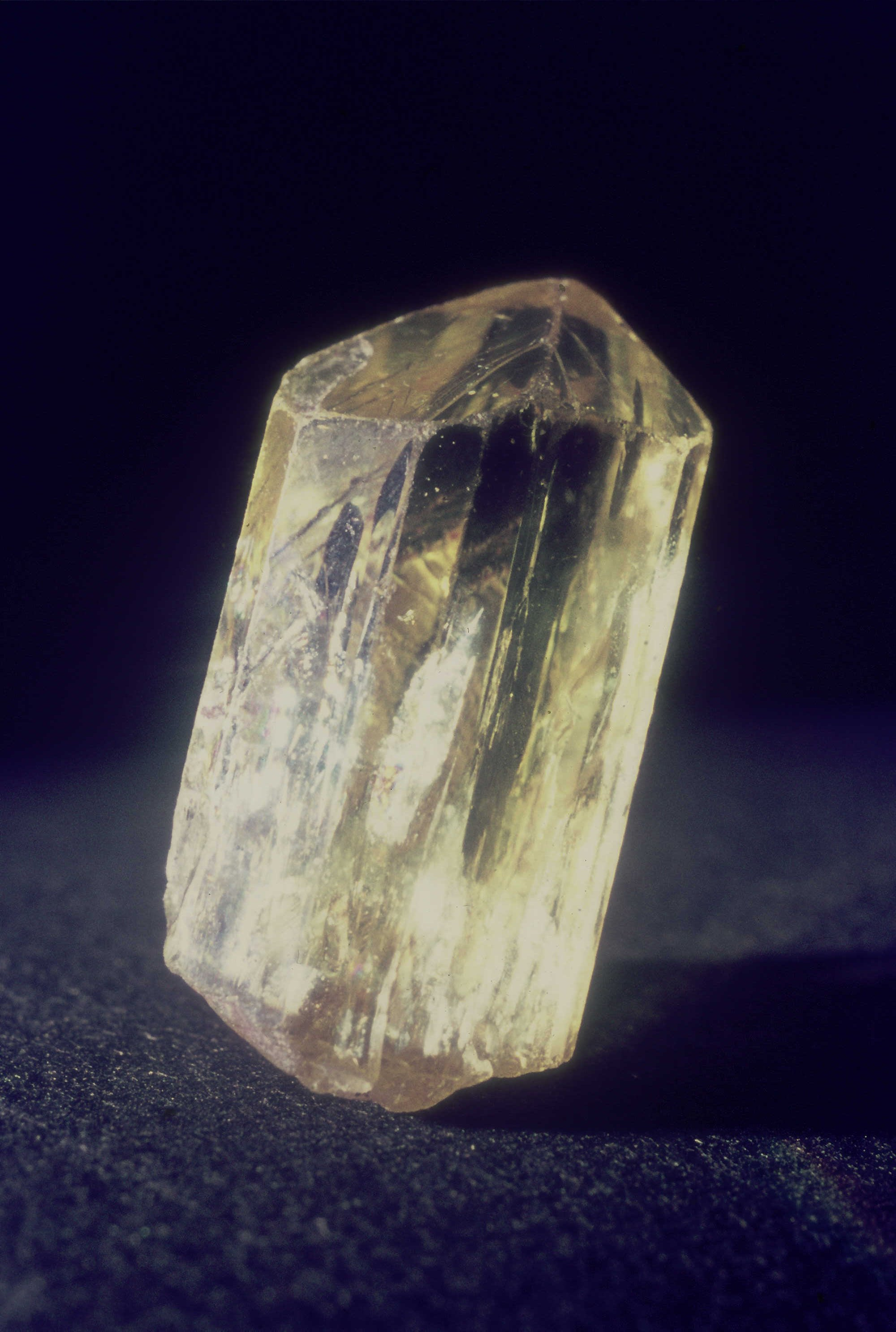 Topaz, single crystal (2 cm)